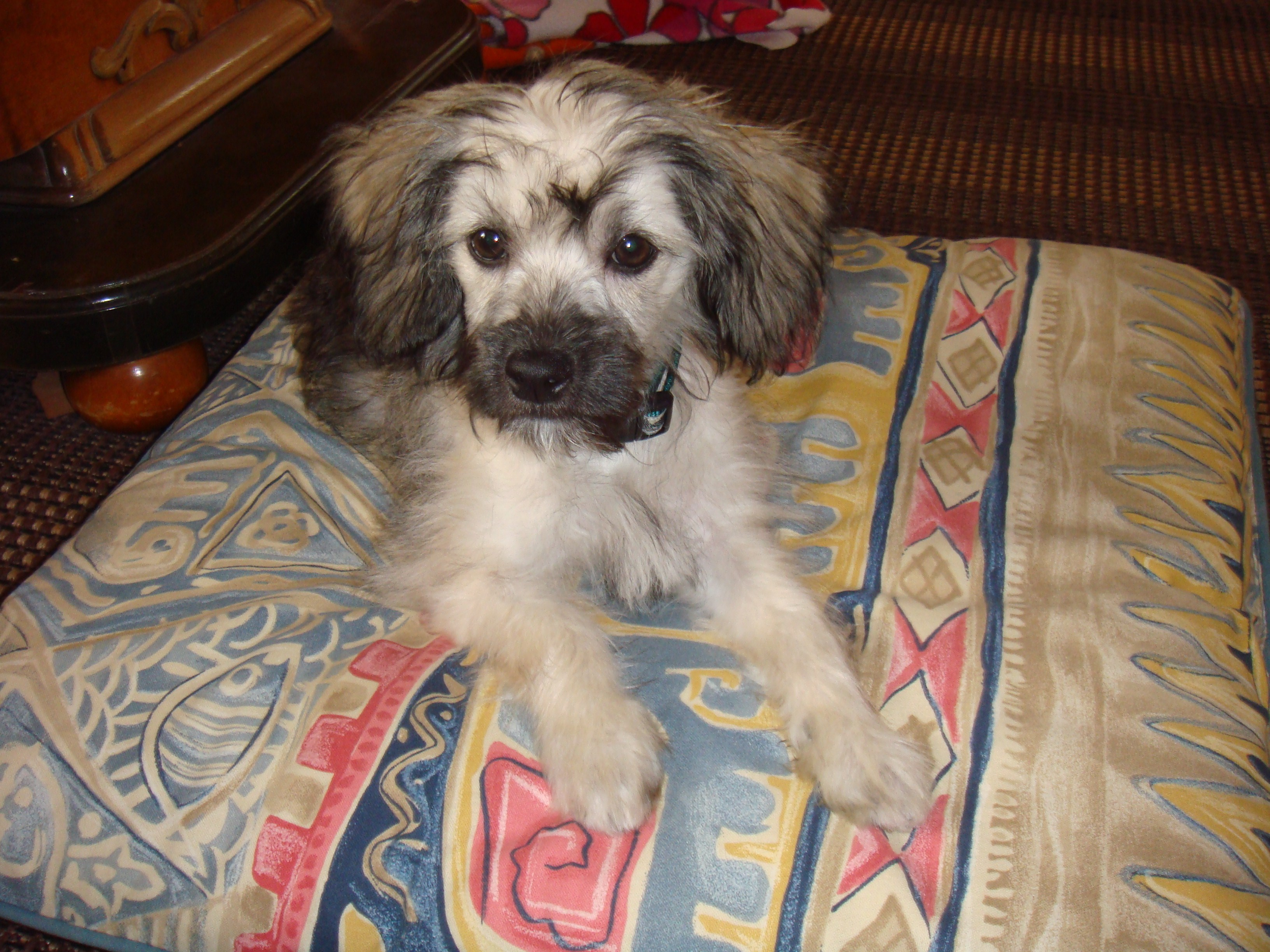 Puppy, 3.5 month old